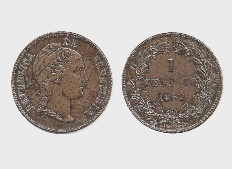 Money of 1 cent of peso. Emisor Republica de Venezuela. Acuñatión made by Birmingham Mint, Ltd.